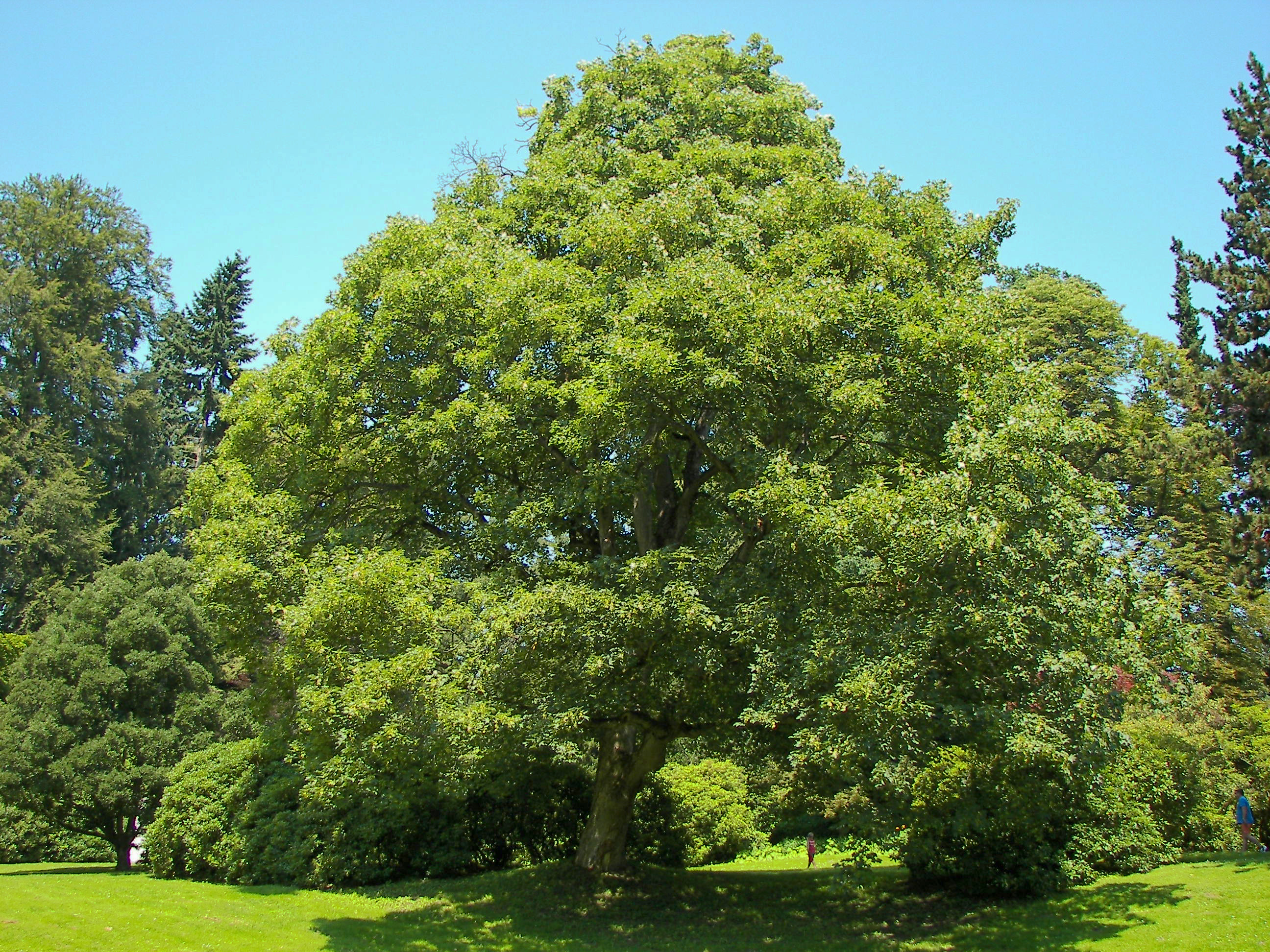 Sycamore Maple (Acer pseudoplatanus) in the Schlosspark Wilhelmshöhe, Kassel, Hesse, Germany